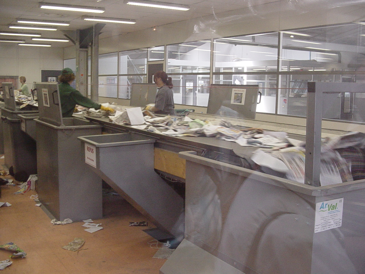 waste sorting near Lyon, France